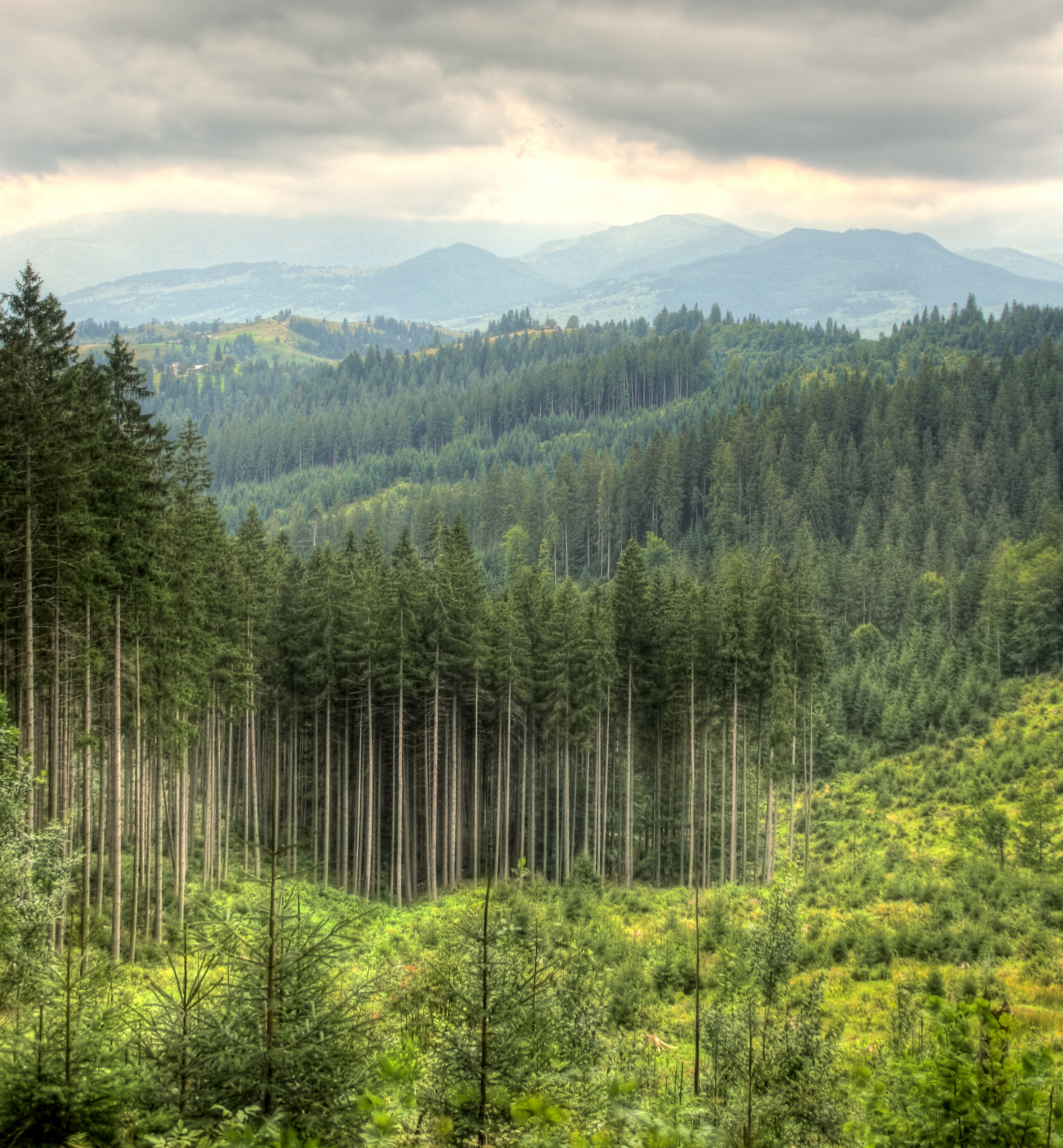 View over the Eastern Carpathians from Yablonitsky Pass, Ivano-Frankivsk Oblast, Ukraine